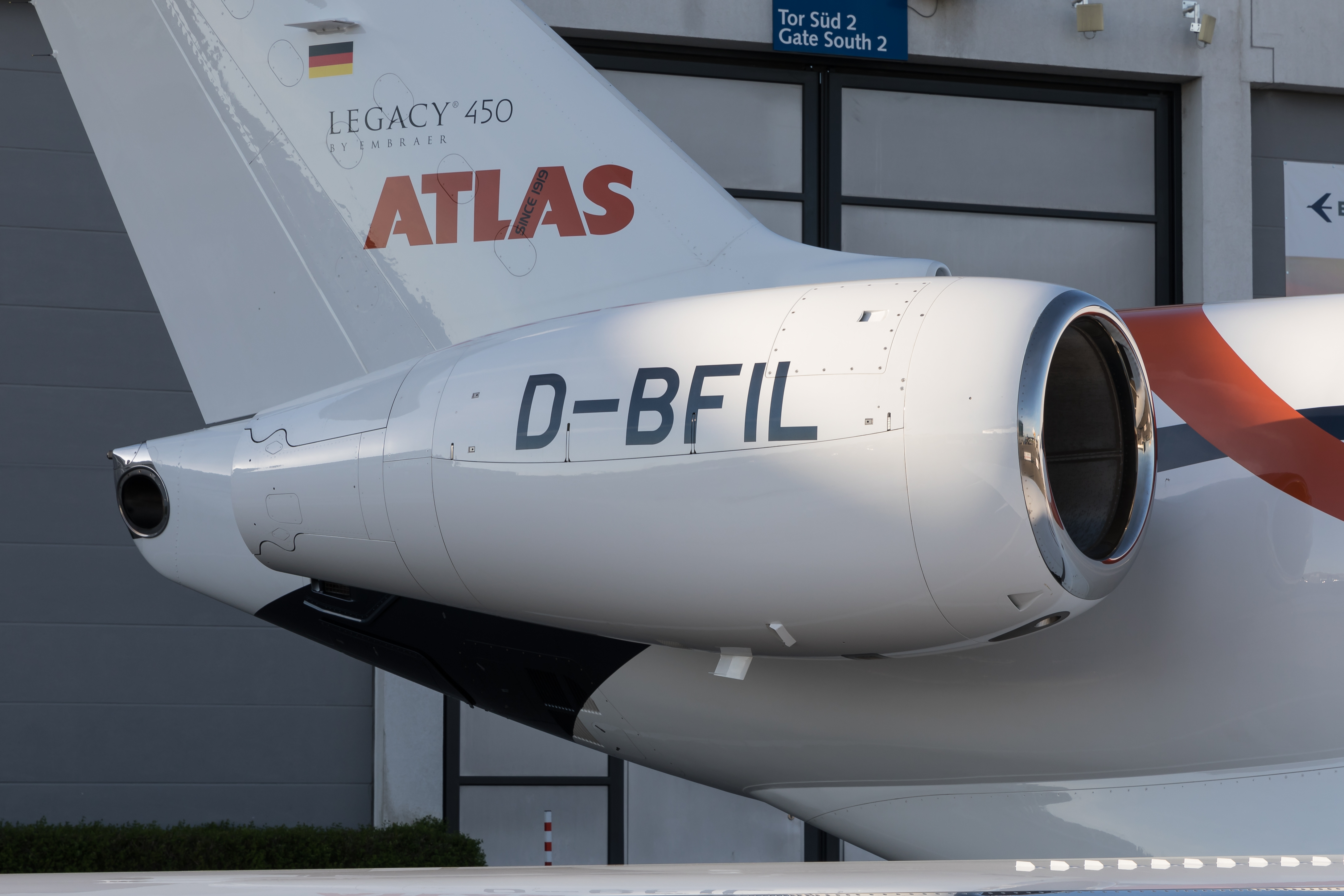 Honeywell HTF7500E engine on an Embraer Legacy 450 at AERO Friedrichshafen 2018